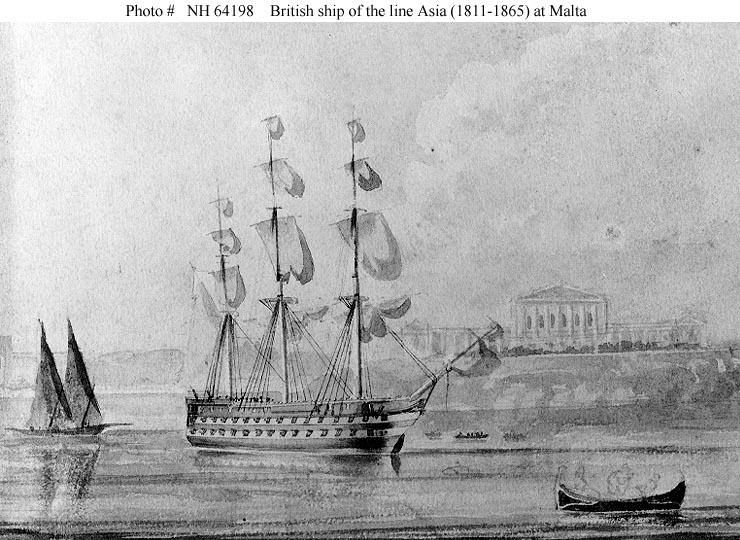 Watercolor by an unidentified artist, depicting the ship at Malta. This ship of the line was later renamed Alfred.